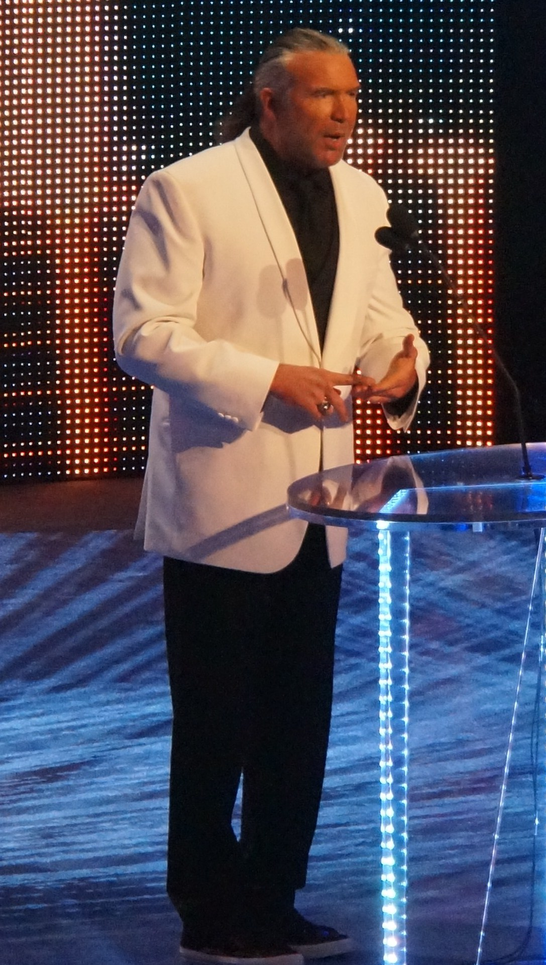 Razor Ramon (Scott Hall) was inducted into the WWE Hall of Fame on 5 April 2014.